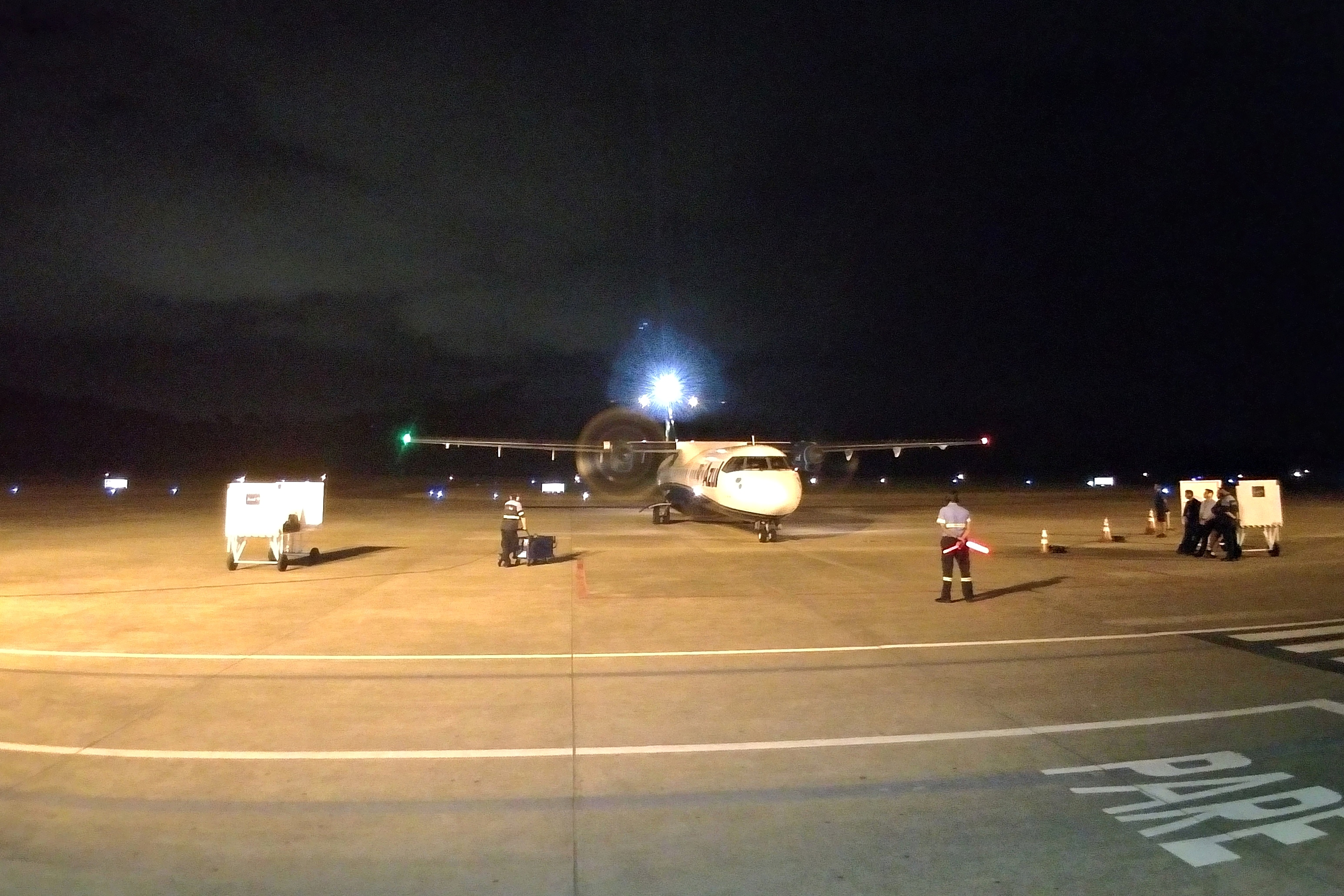 Nocturn view of a ATR-72 of the Azul Linhas Aéreas Brasileiras in the Ipatinga Airport, in Santana do Paraíso, Minas Gerais, Brazil.